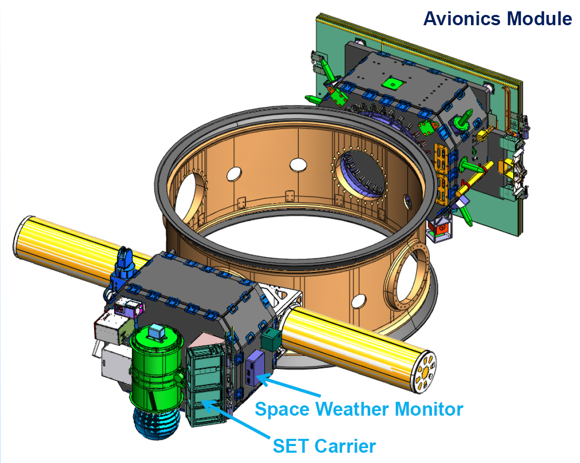 Drawing of the USAF Demonstration and Science Experiments (DSX) of Air Force Research Laboratory